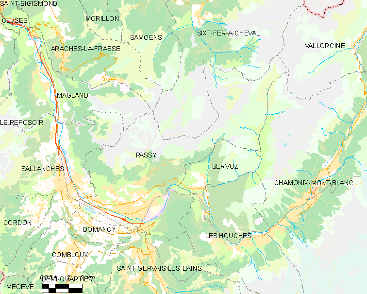 Map of French municipality Passy